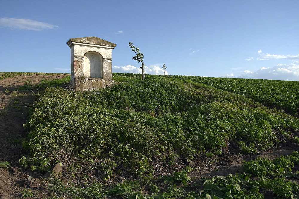 Chapel of St Adalbert of Prague with a spring in Přerov nad Labem in 2006.